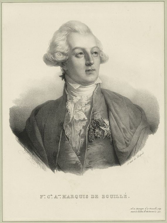 François Claude Amour, Marquis de Bouillé (1739-1800).